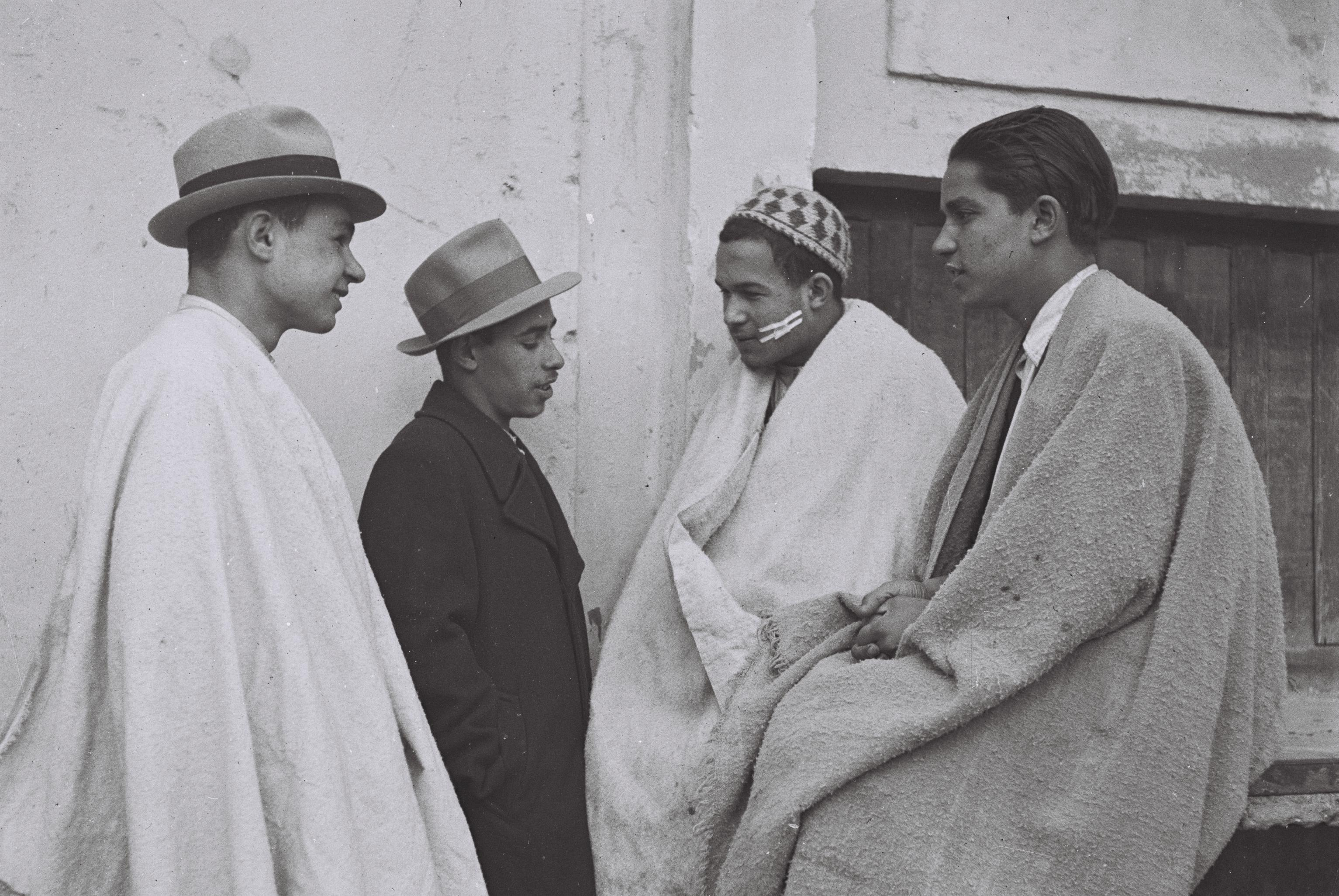 NEW IMMIGRANTS FROM MOROCCO IN THE RECEPTION CAMP NEAR HAIFA. עולים חדשים ממרוקו במחנה העולים ליד חיפה.